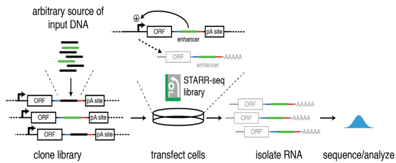 Overview of the STARR-seq pipeline. First a reporter library is cloned from an arbitrary DNA source, which can be sonicated genomic DNA for comprehensive genome-wide screens. The reporter library is transfected into cultured cells and the reporter transcripts are isolated from the pool of total RNA after 24 h. After cDNA synthesis and PCR amplification of the self-transcribing sequences, deep sequencing is conducted and the resulting reads are mapped to the reference genome. The enrichment of reporter cDNA over input directly and quantitatively reflects enhancer activity.